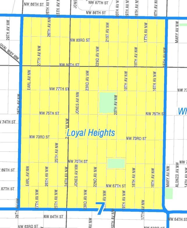 Map of the Loyal Heights portion of Seattle's Ballard neighborhood. Like the other maps from the Seattle City Clerk's Neighborhood Map Atlas, this is not an official map; in particular, borders are not official. Disclaimer: The Seattle Neighborhood Atlas, which the Seattle Clerk's Office has placed in the public domain (as confirmed by OTRS ticket 2008033110016048) contains some general commentary on the maps, "About Maps", which should typically be linked as an accompaniment to these maps to (in their words) "minimize the numerous 'complaints' or comments by users who feel it necessary to point out how the Clerk's Office is 'wrong' about a certain section of town." In particular, "About Maps" says that the atlas "is designed for subject indexing of legislation, photographs, and other documents in the City Clerk's Office and Seattle Municipal Archives" and "is not designed or intended as an 'official' City of Seattle neighborhood map. There are many different ideas of what neighborhood districts exist in Seattle and what their names are…"